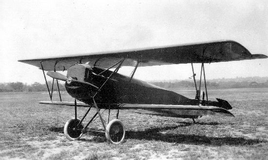 Fokker PW-9